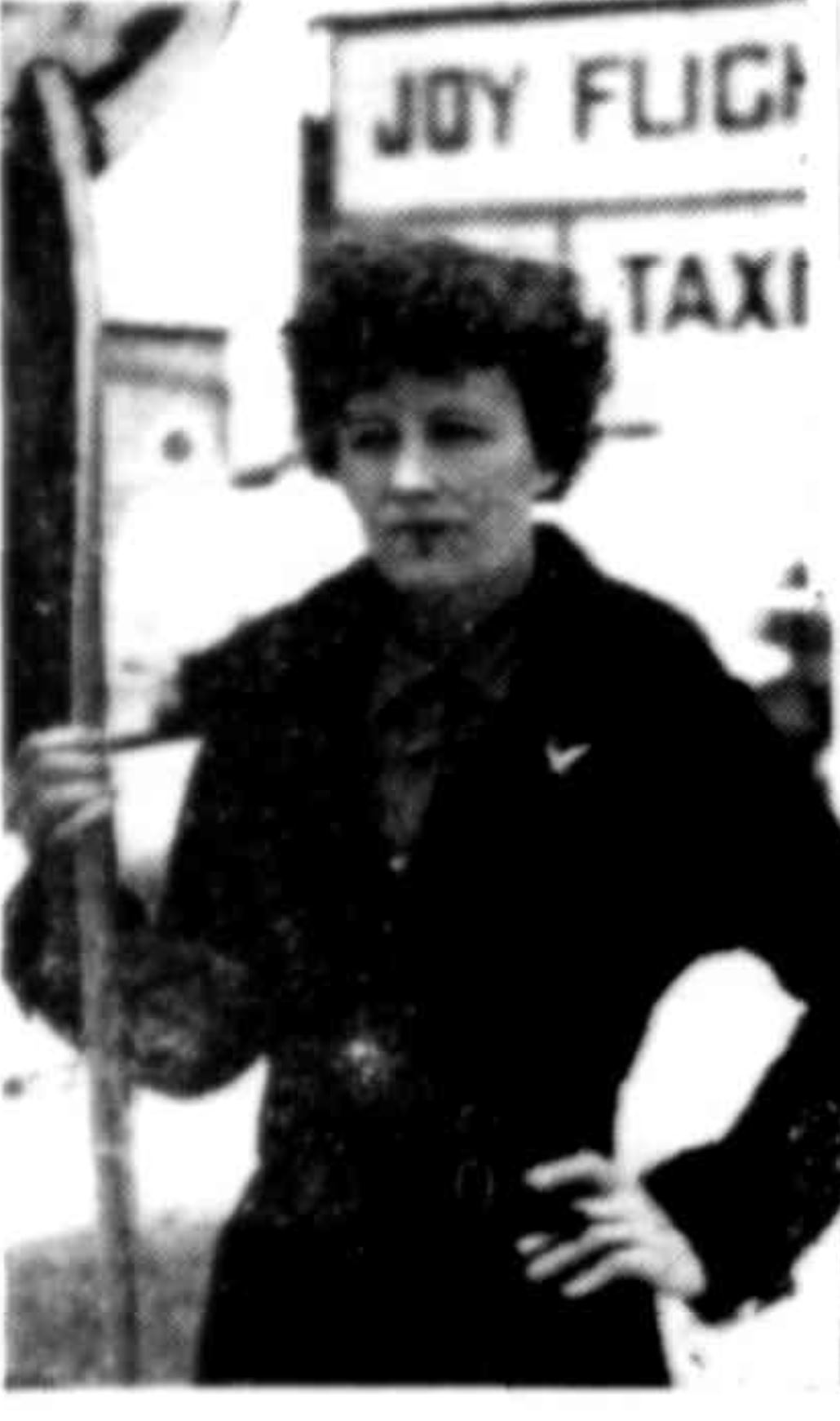 Miss May Brayford wearing the black overalls and gold wings in which she appeared at Parafield Airport at the conclusion of the Centenary Air Race, in which she was a competitor.